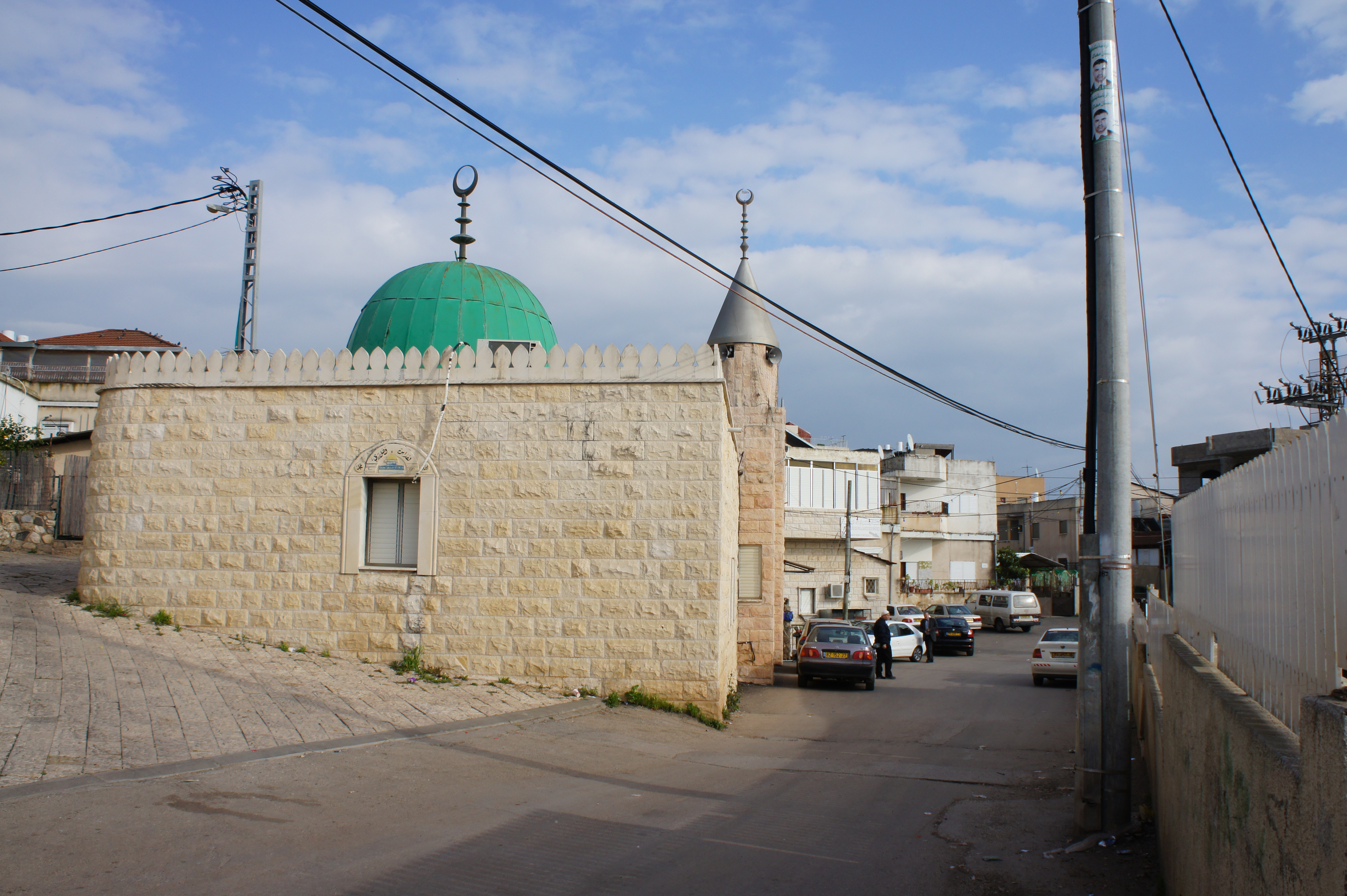 Sulam, in Galilee